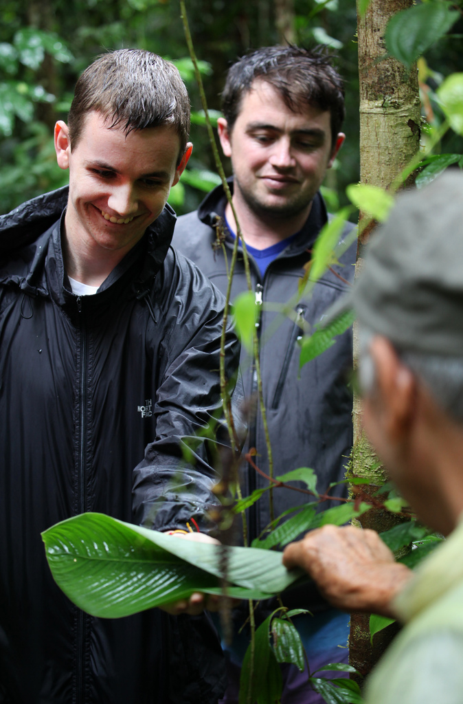 Studying biology in the Amazon rainforest